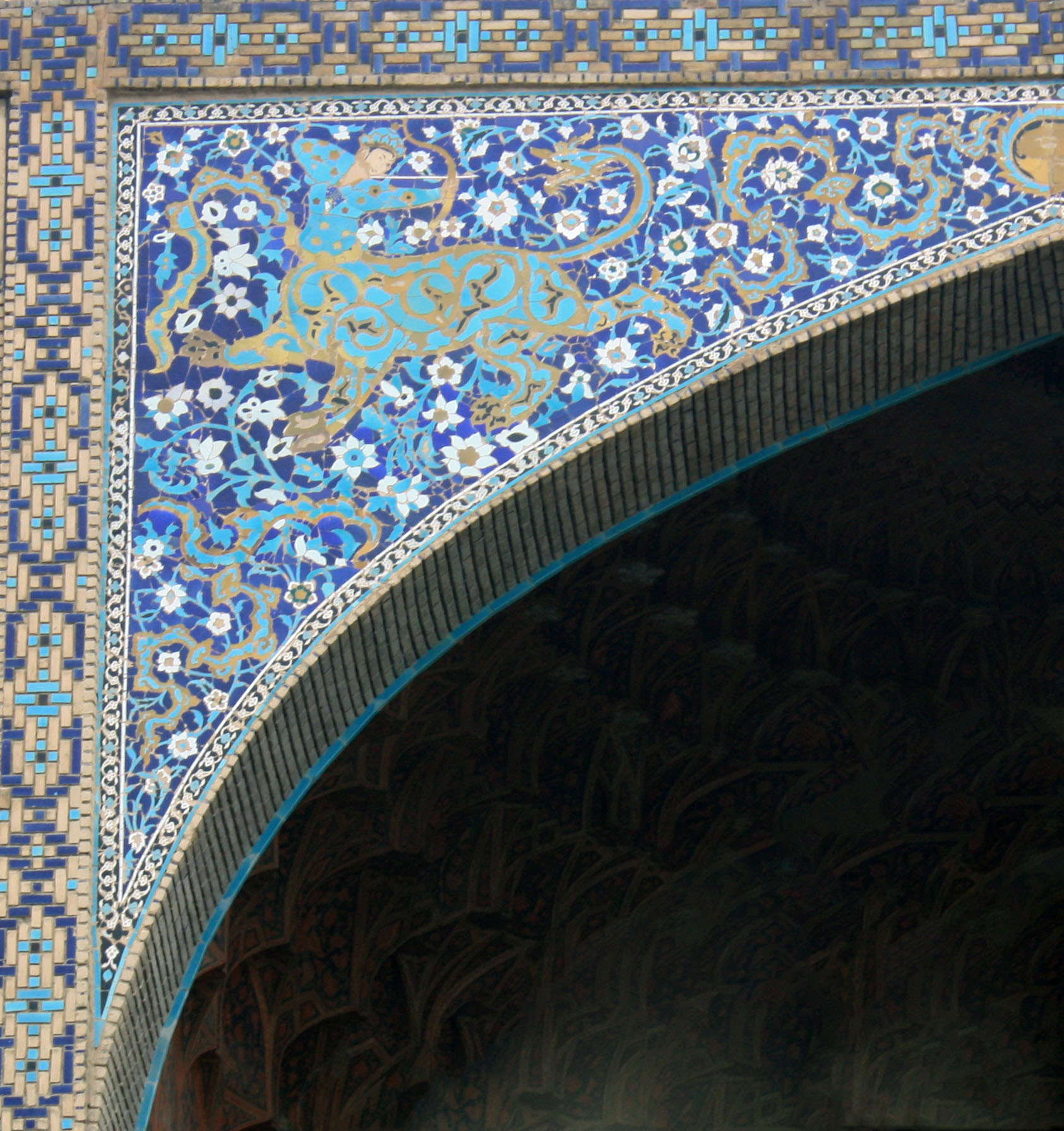 Isfahan Icon in Naqsh-e Jahan Square